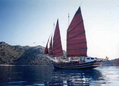 BILBO One of the last Malay Junks sail boat for ocean tramping with the family. Constructed following ancient traditions of the Malay master craftsmen. Its ocean voyage towards the Mediterranean and some onboard family leisure Launched in water the 7 August 1995 06:00AM, Bilbo crossed the Indian Ocean to Turkey early 1997. More information? Have a look to or contact me and let's take some beers together...